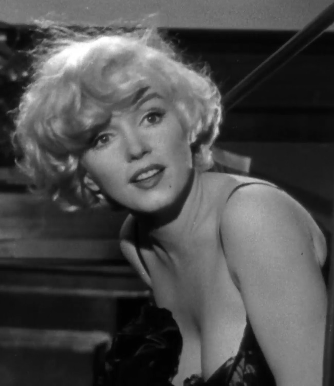 Cropped screenshot of Marilyn Monroe from the trailer for the film Some Like It Hot